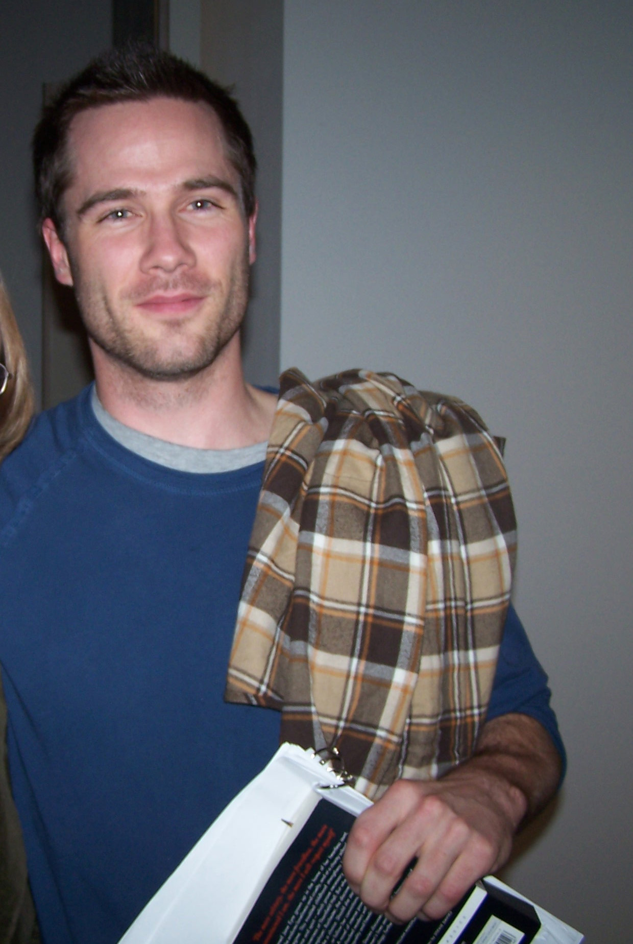 Luke MacFarlane at the stage door at the Skirball Center in Los Angeles, CA, after his performance in "The Busy World is Hushed."